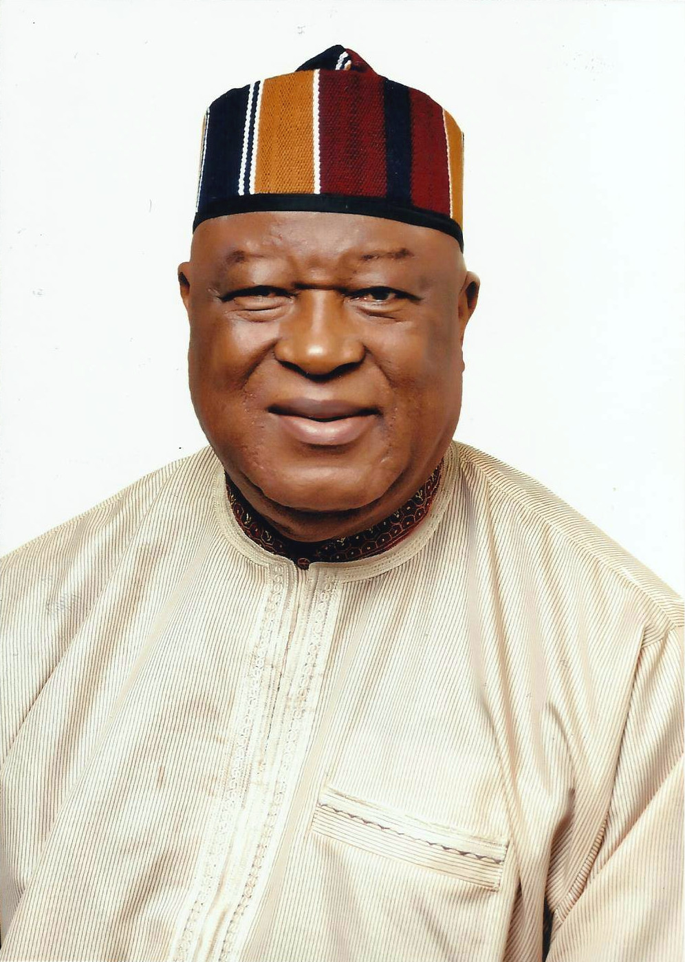 A Tiv political figure